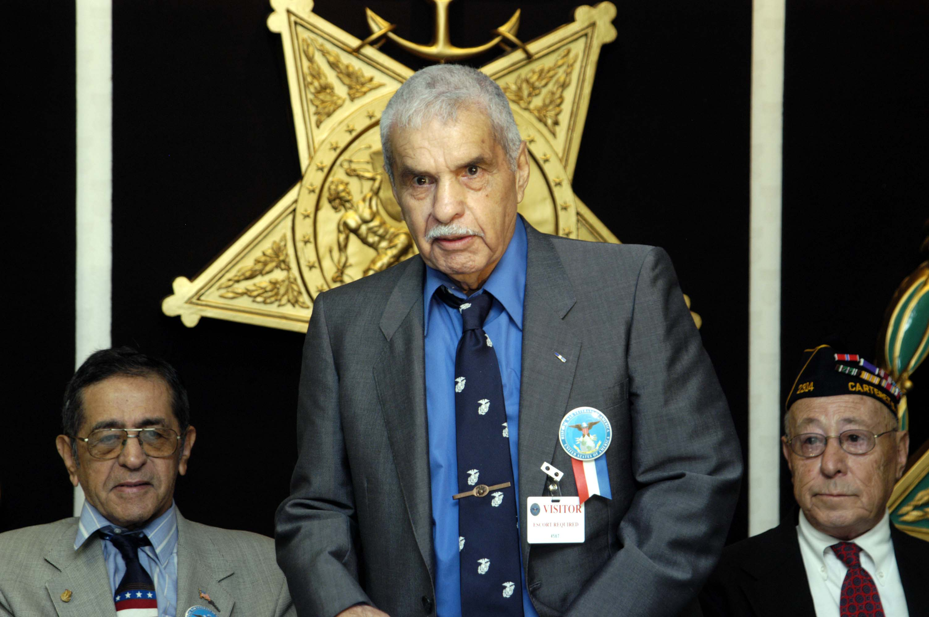 Guy Gabaldon, WWII Navy Cross recipient